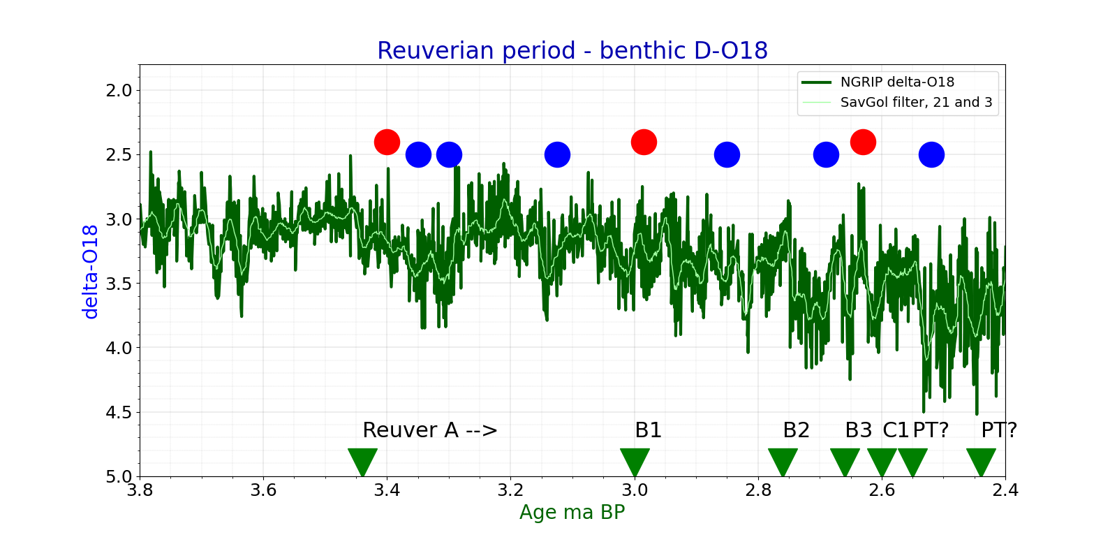 Raw delta-O18 curve between 3,60-2,50 millios ago, that is Reuverian or Piacenzian stage. Based on James Zachos et al data file 2001 compliationdata.txt on web site Y-axis is column 3 on file, that is is uncorrected delta_018. X axis is dating millions of years ago.